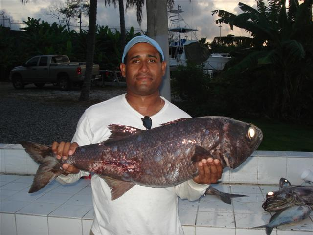 Scombrops oculatus from Dominican Republic